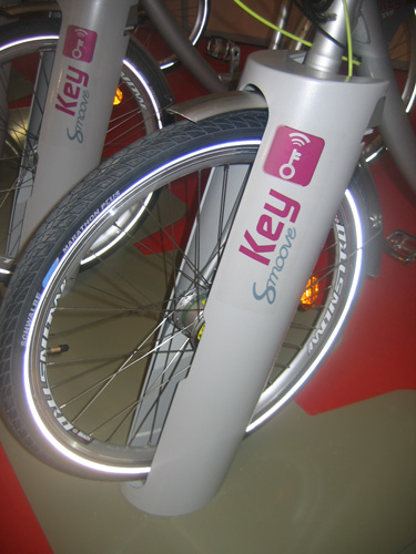 The patented Fork Lock system by the Smoove company requires neither heavy installation work nor power supply: The active parts are on the bicycle, the lock, whether electrical or mechanical, fastens two studs in the fork.